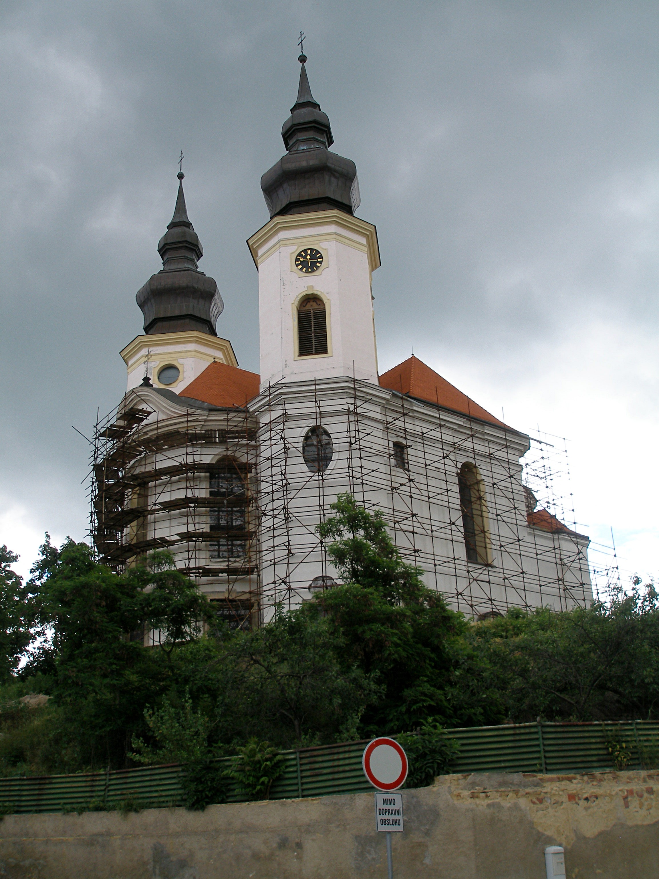 Church of St. Peter and Paul in Březno (Chomutov District)